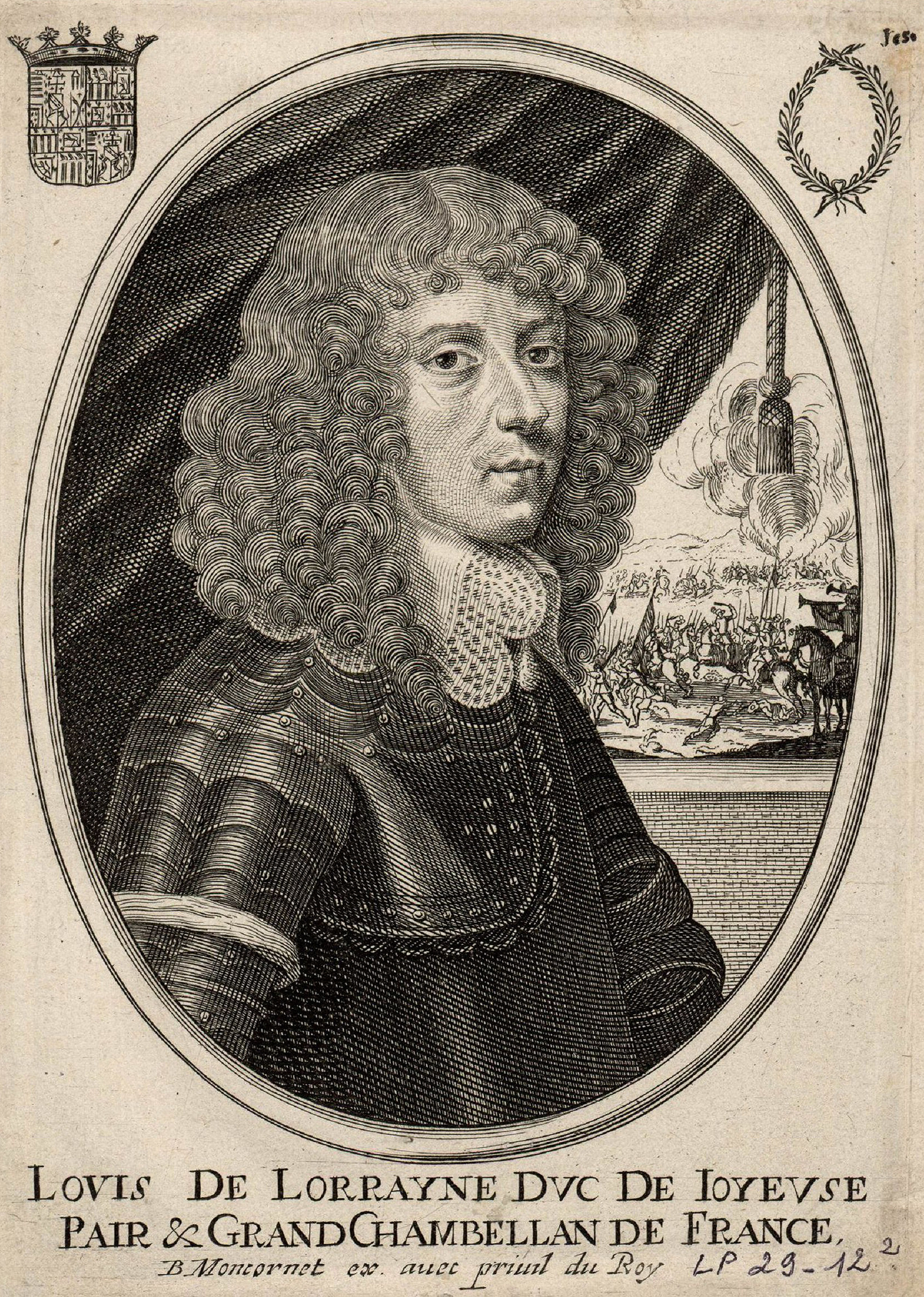 Louis de Lorraine, Duke of Joyeuse, Schloss Versailles